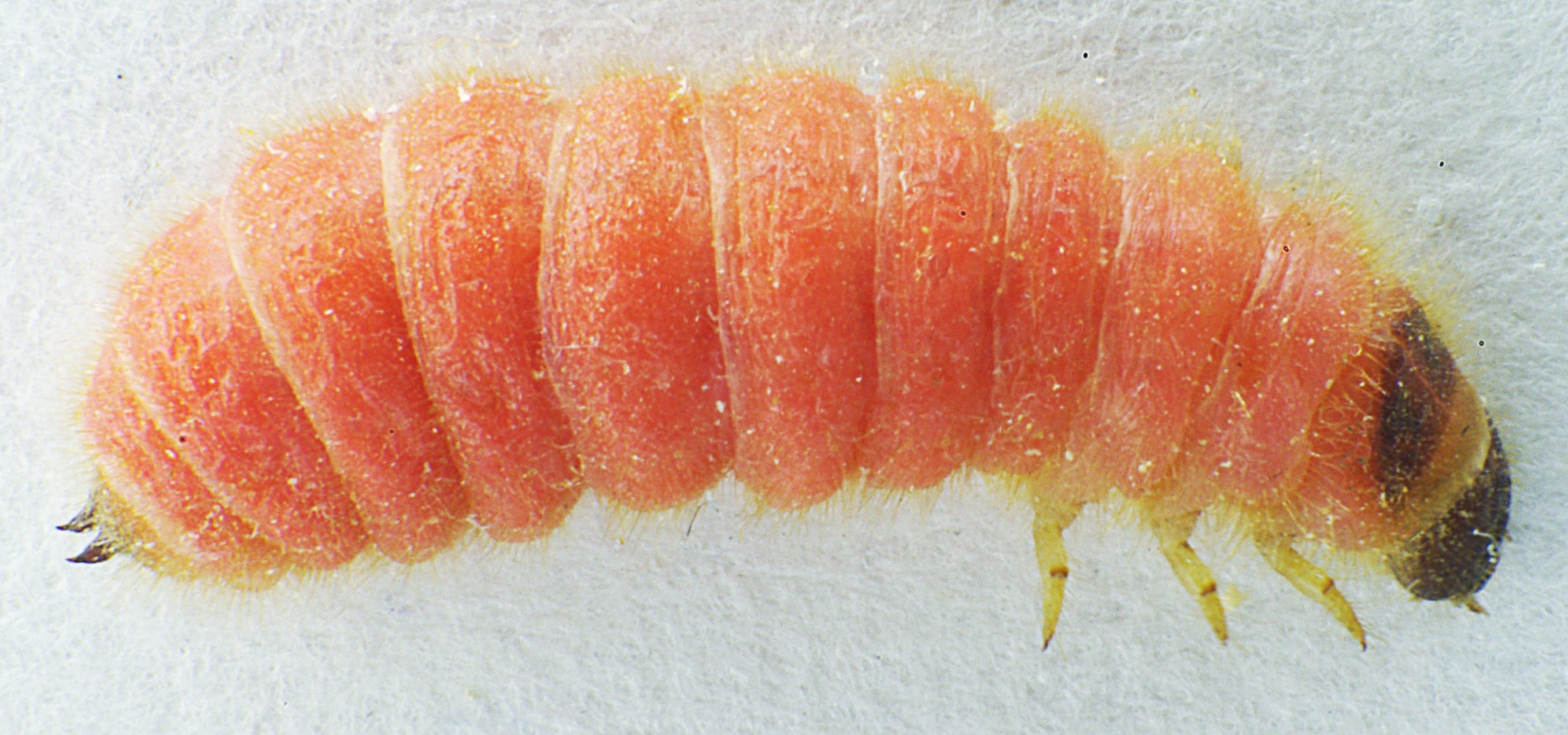 Larva of Trichodes apiarius